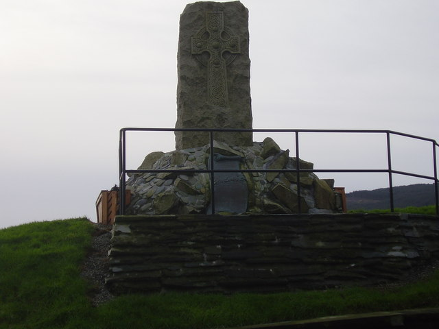 Lamont Memorial